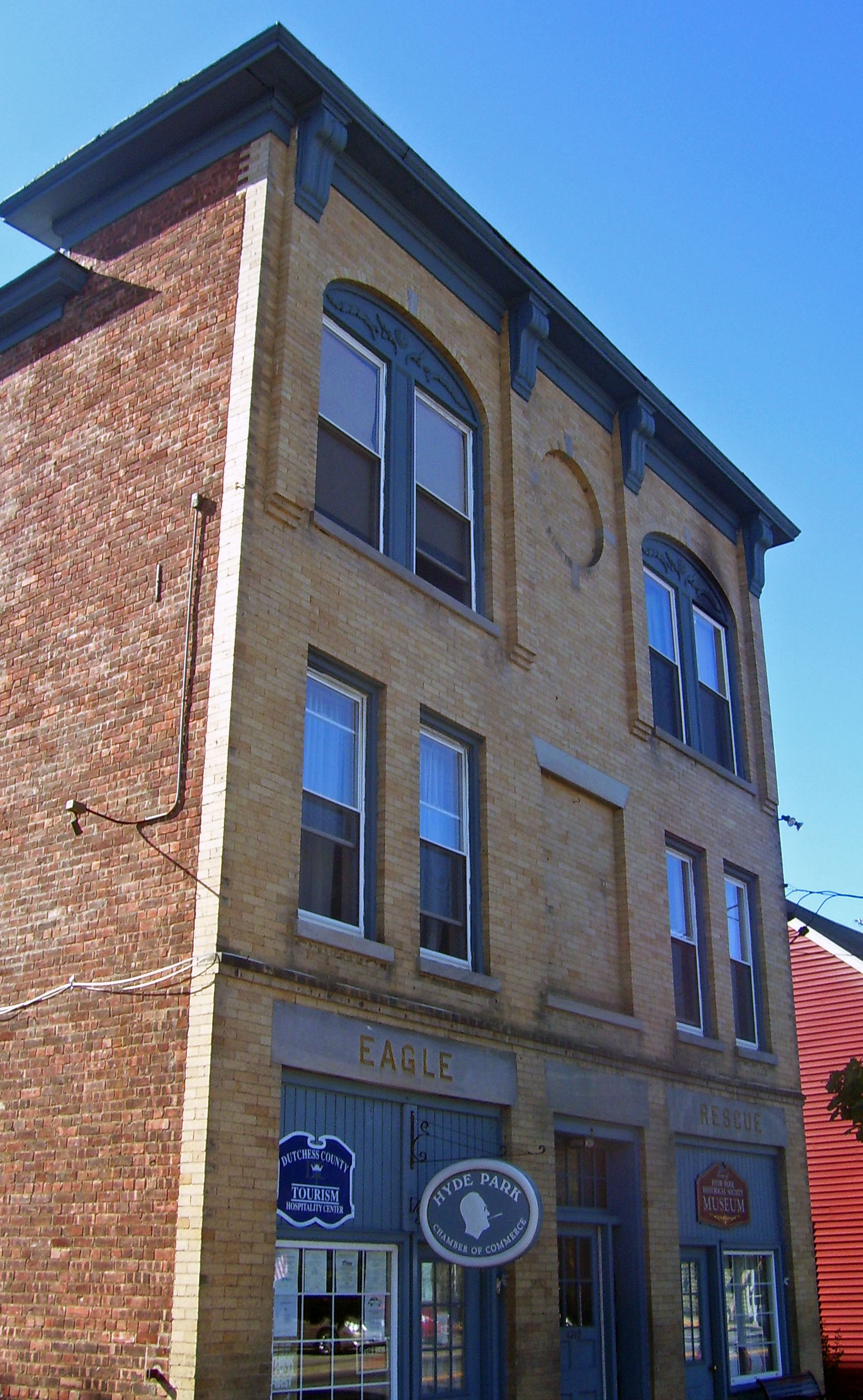 Former fire station in Hyde Park, NY, USA